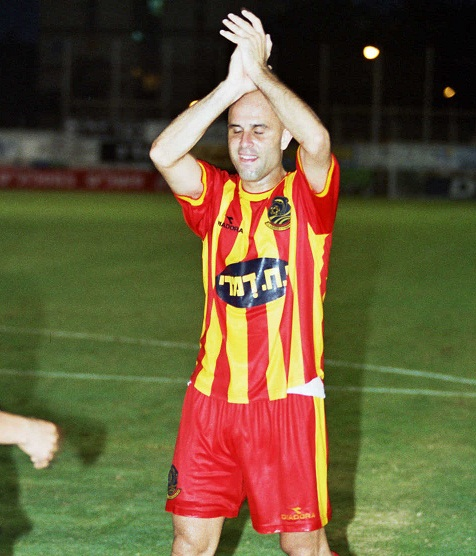 yossi abuksis f.c. ashdod